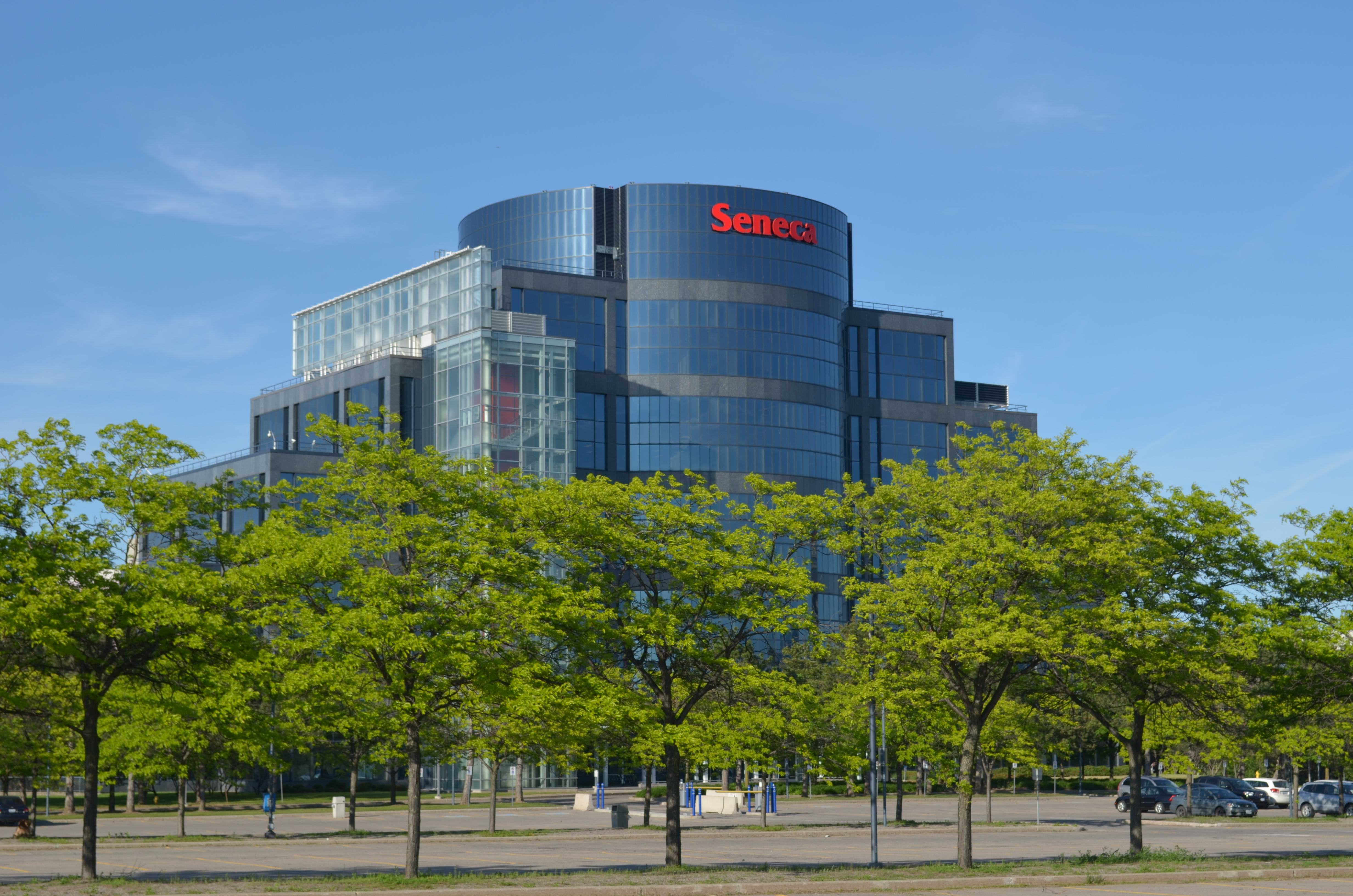 Seneca College, Markham Campus